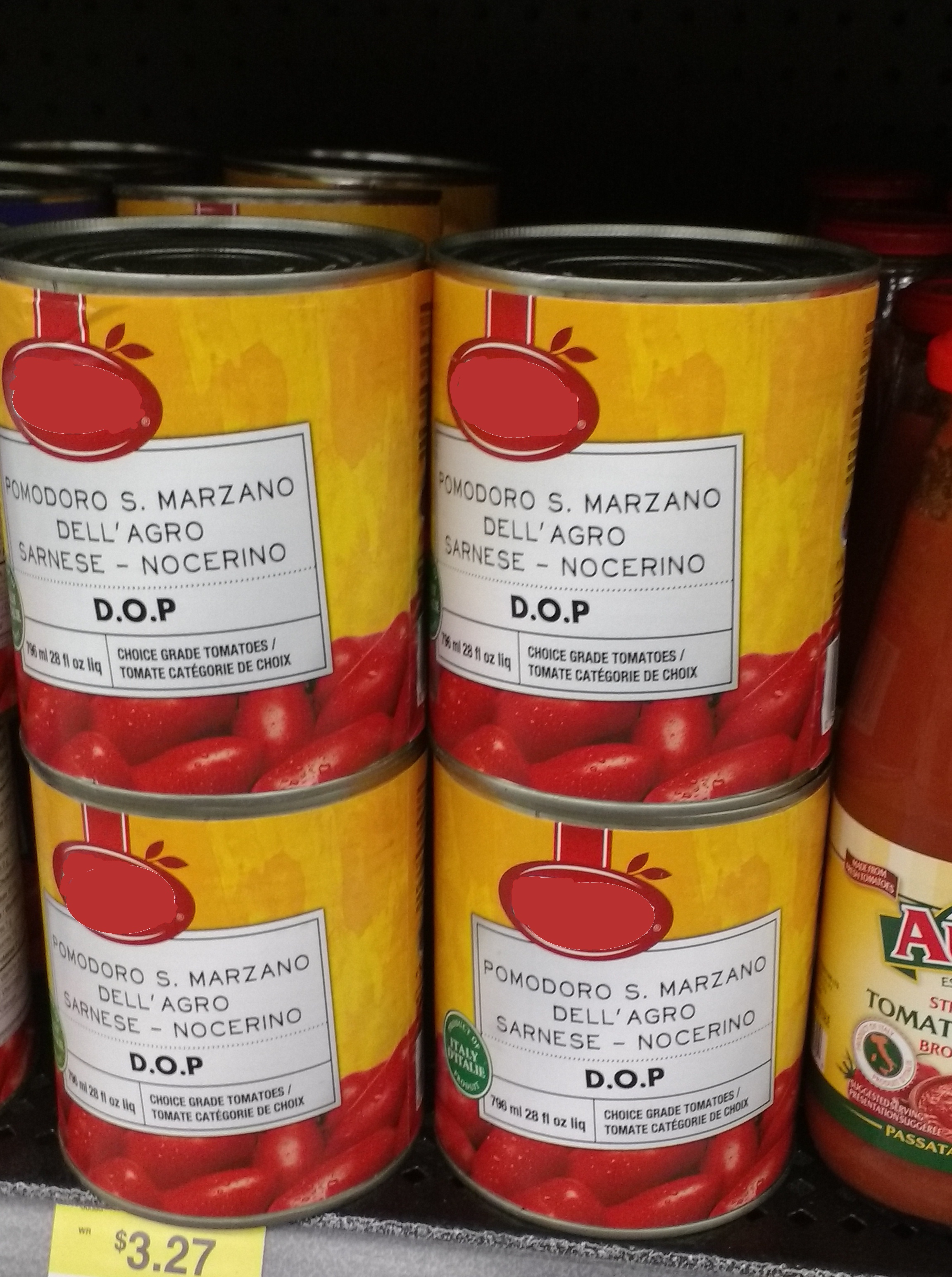 Certified D.O.P. Pomodoro S. Marzano dell'Agro Sarnese-Nocerino tomatoes in a can, seen in Canada. I coloured in the brand name, to avoid trademark issues. Rest of the label is mostly text.